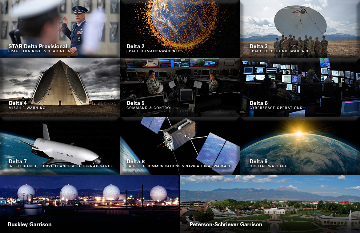 Space Force Delta Garrisons Graphic